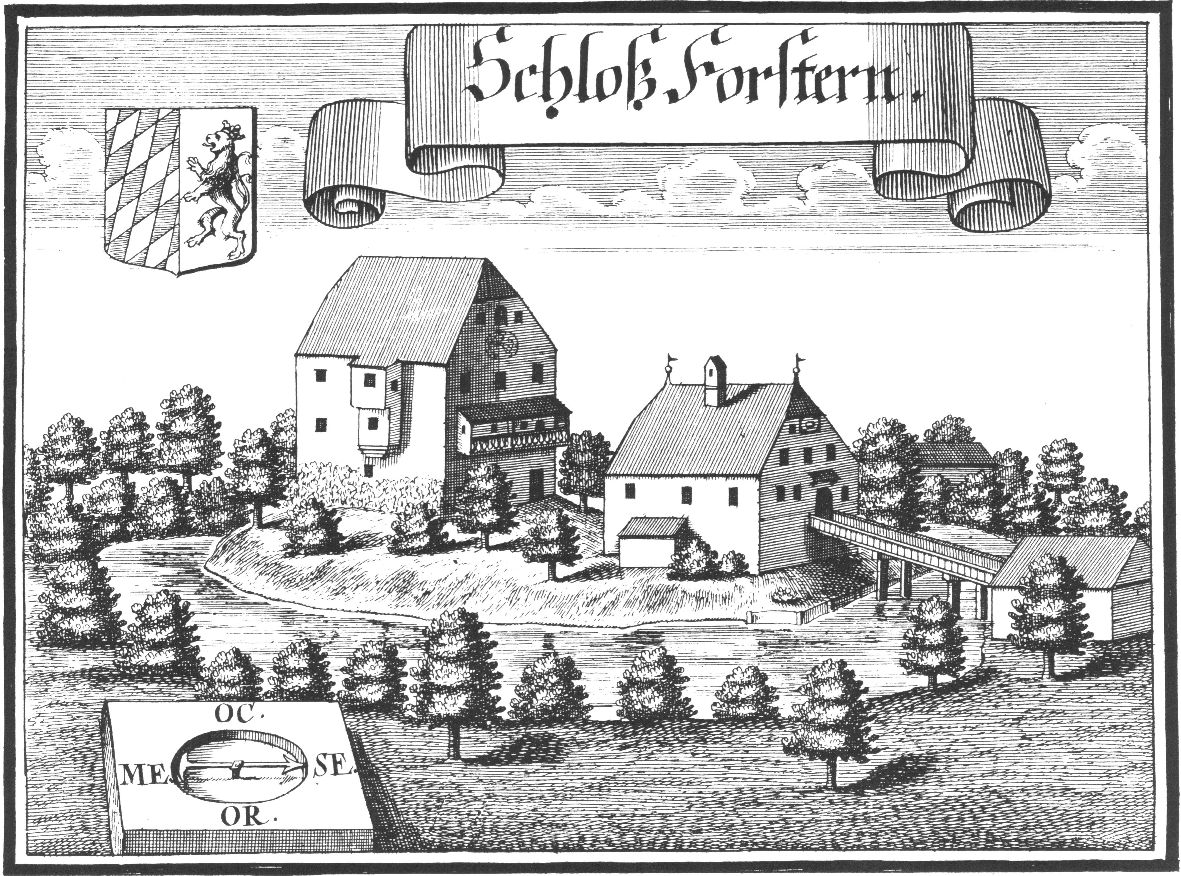 Michael Wening: Engraving of Forstern castle, Upper Austria (ca. 1721)